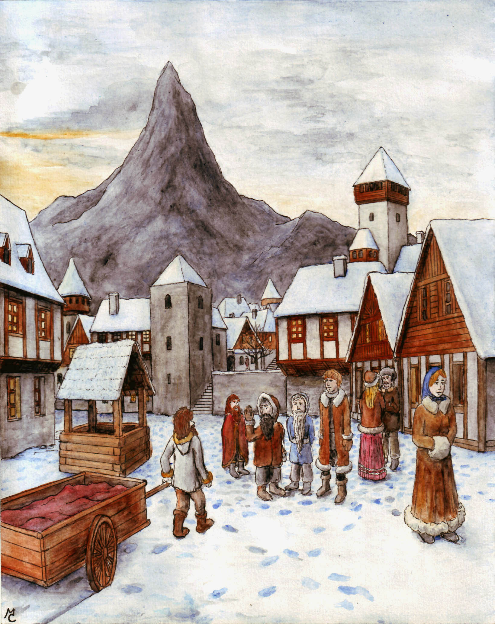 The township of Dale under the Lonely Mountain (Erebor)